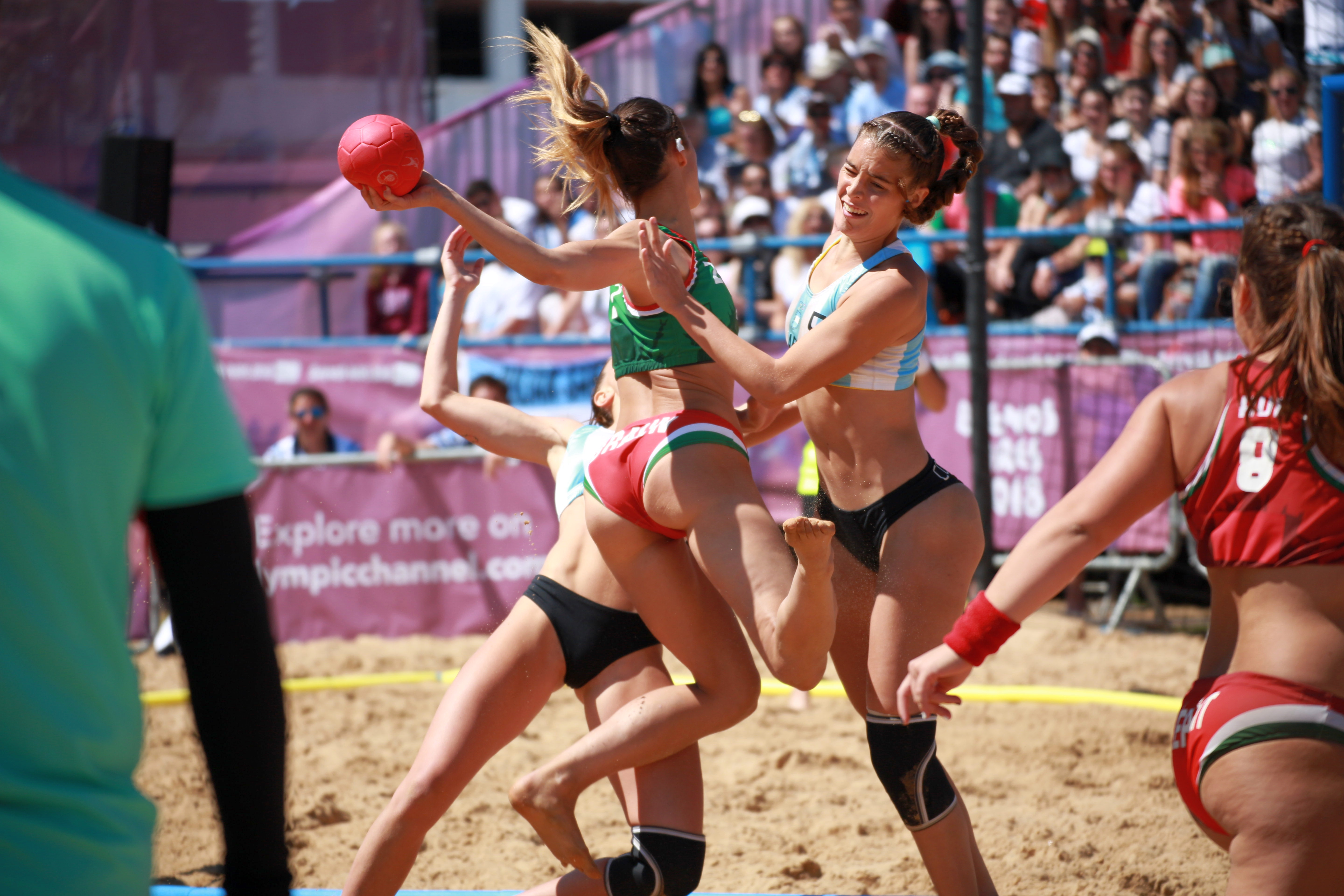 Beach handball at the 2018 Summer Youth Olympics in Buenos Aires at 13 October 2018 – Girls Semifinal – Hungary-Argentina 1:2